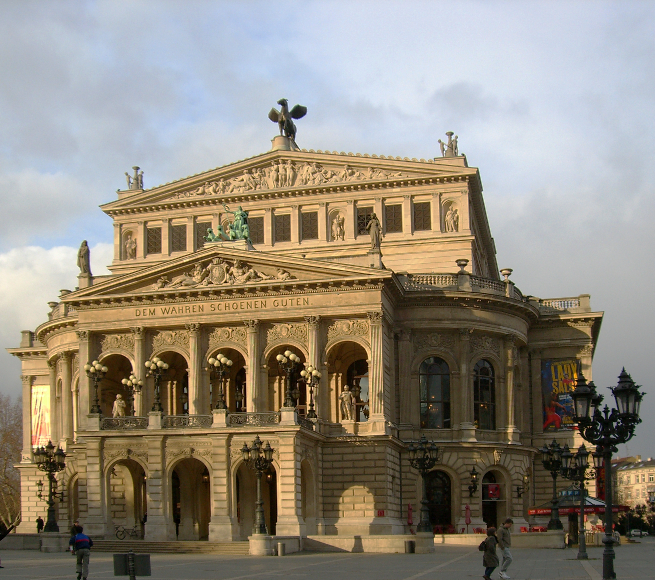 Frankfurt, Germany